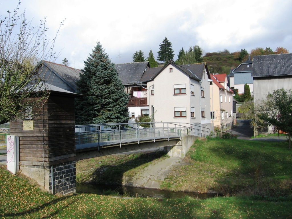 Solmsbach with tide gauge in Bonbaden (district Lahn-Dill, Hesse)